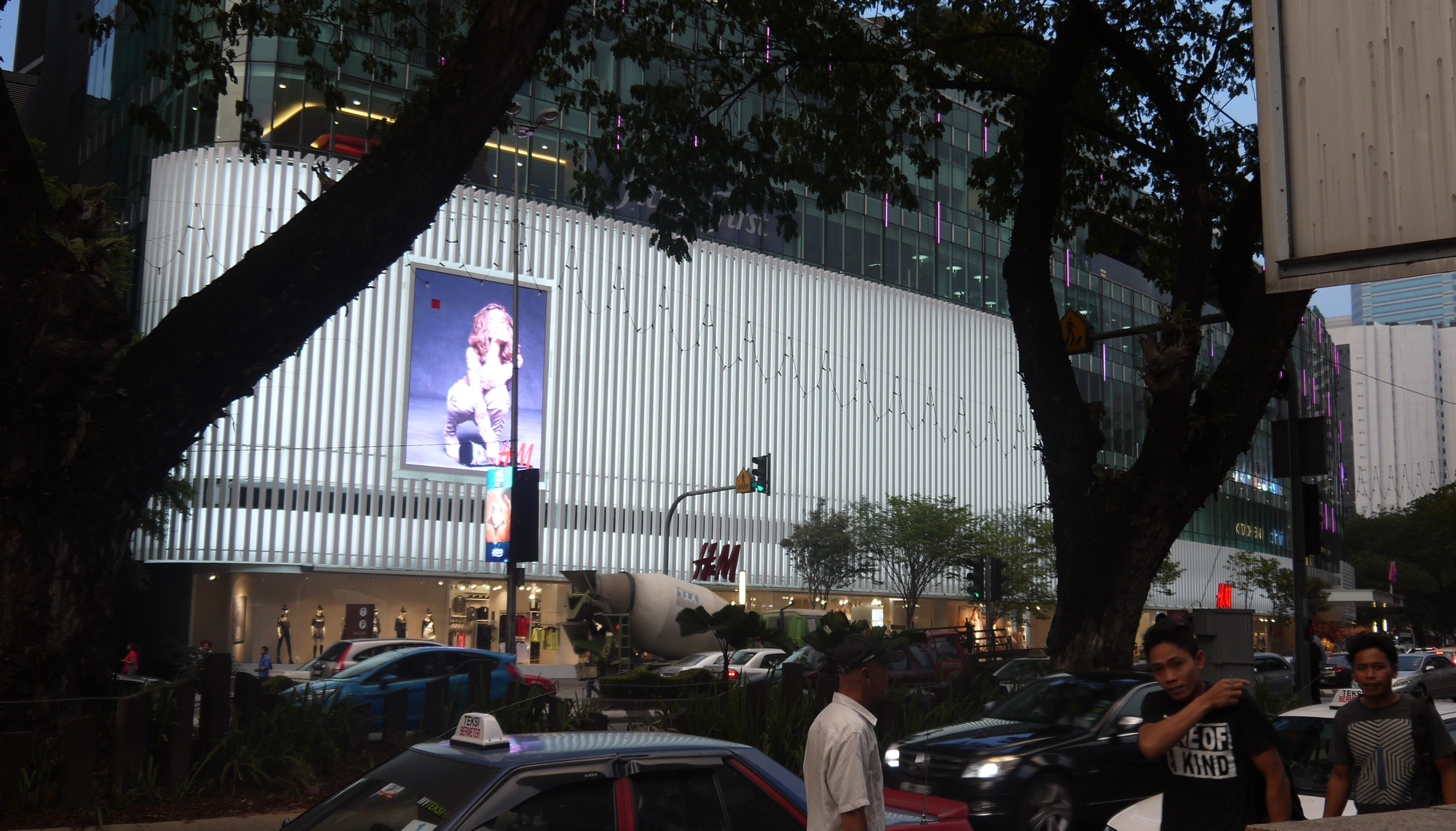 Avenue K exterior facade after renovation